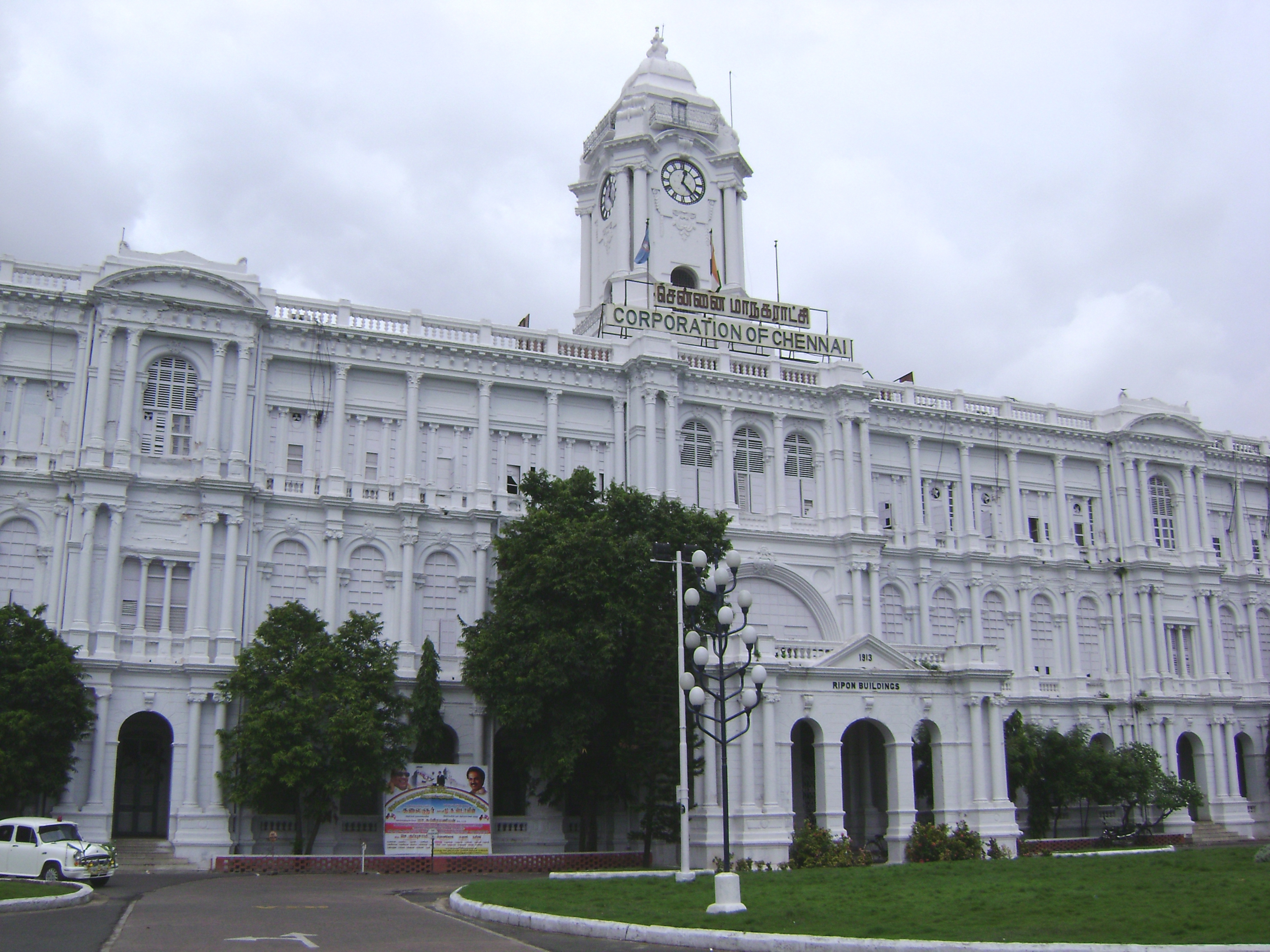 The Ripon Building is the seat of the Chennai Corporation (also known as the Municipal Corporation of Chennai, formerly "Madras Corporation") in Chennai (Madras), Tamil Nadu, India.